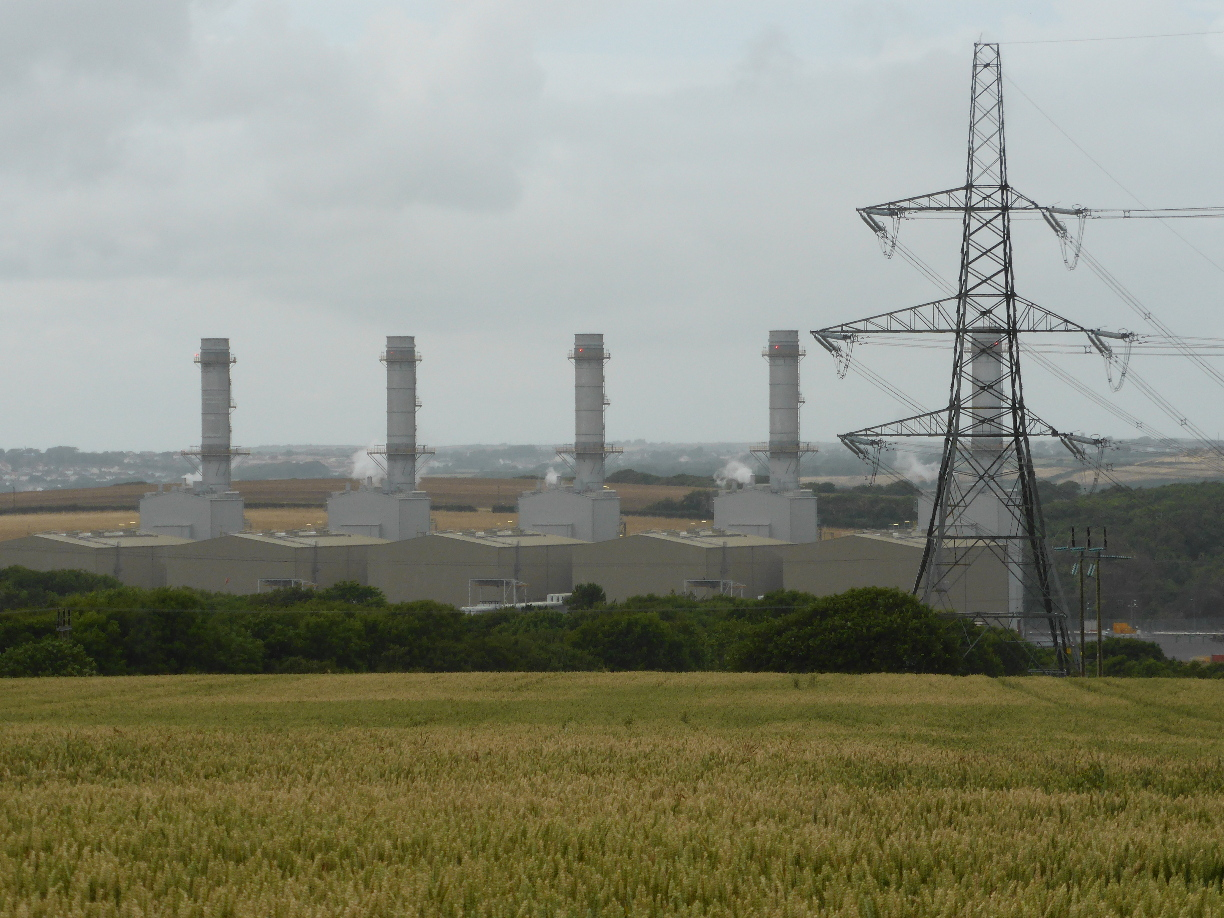 Looking over the barley field towards Pembroke Power Station